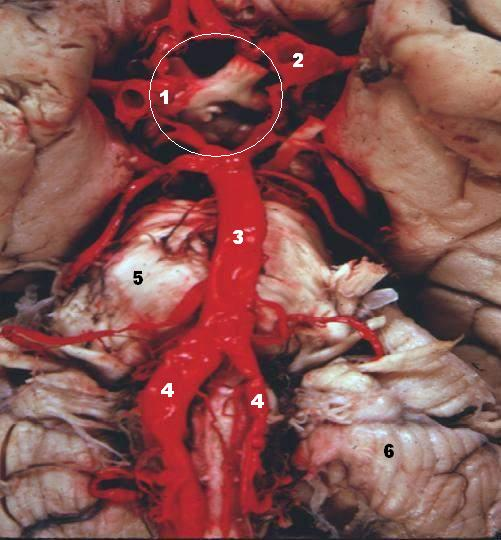 Human base of brain blood supply - Description Arterial Circle of Willis Arteria carotis interna A. basilaris A. vertebralis Pons Cerebellum The brain receives its blood supply via the Internal Carotid and the Vertebral Arteries.